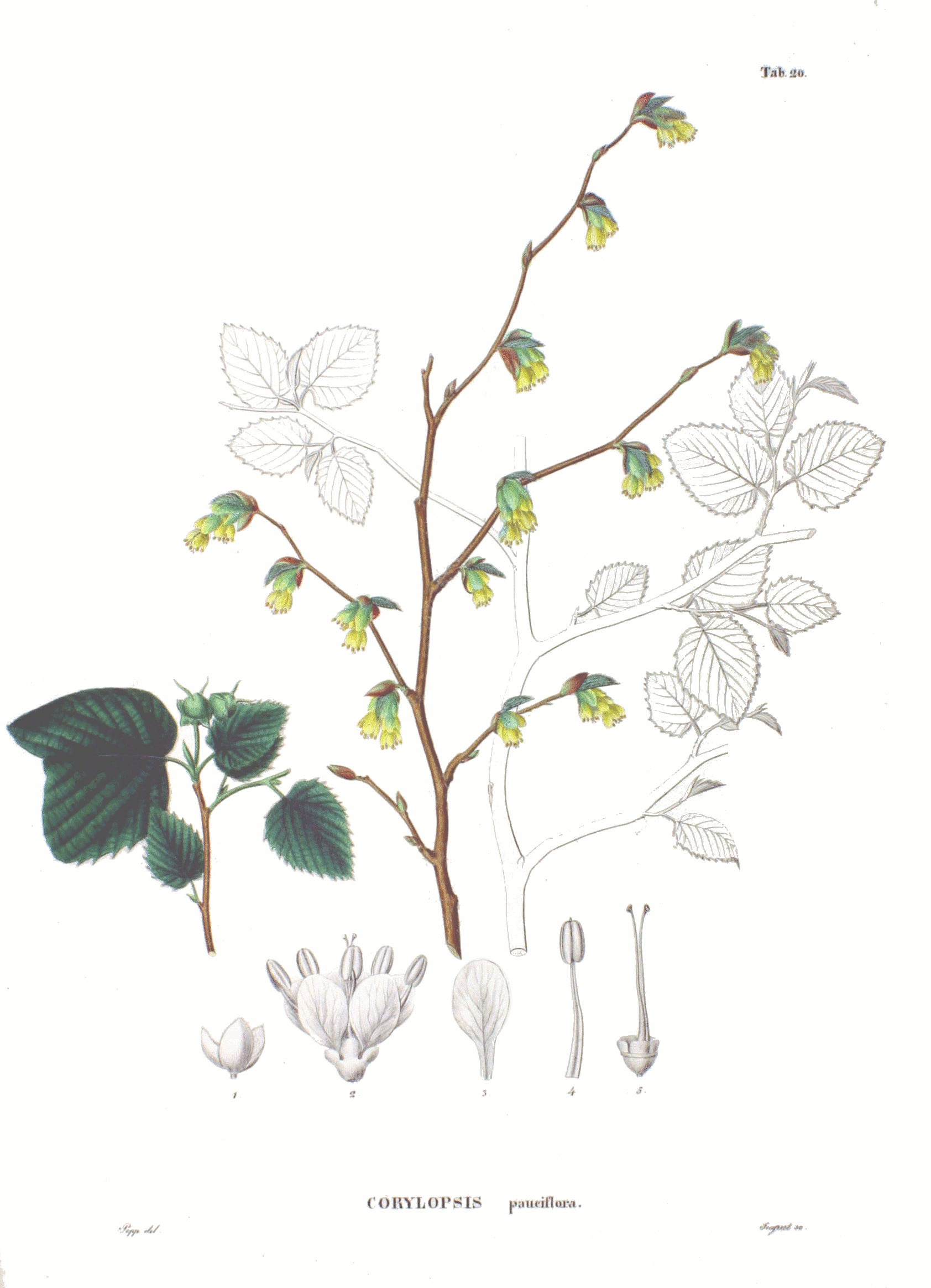 Plate from book